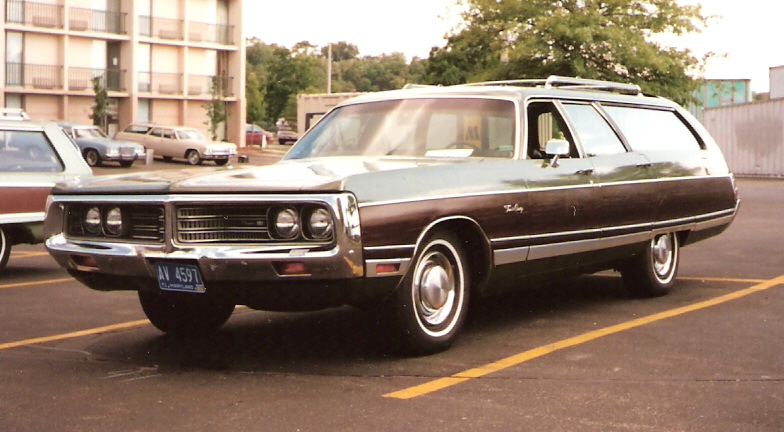 1972 Chrysler Town & Country station wagon I photographed in Pittsburgh, Pennsylvania in June 2000.